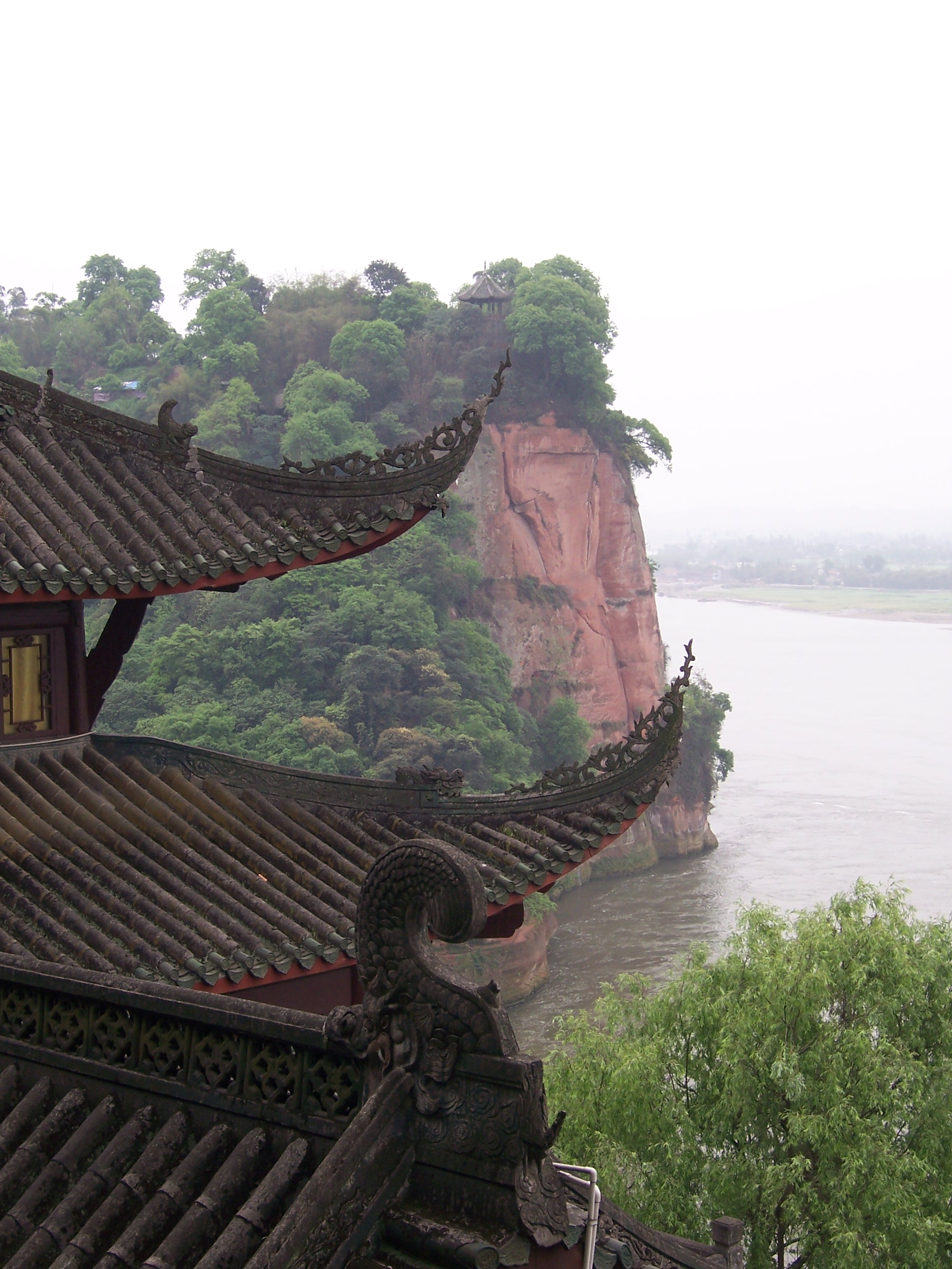 China - Leshan 16 - river view